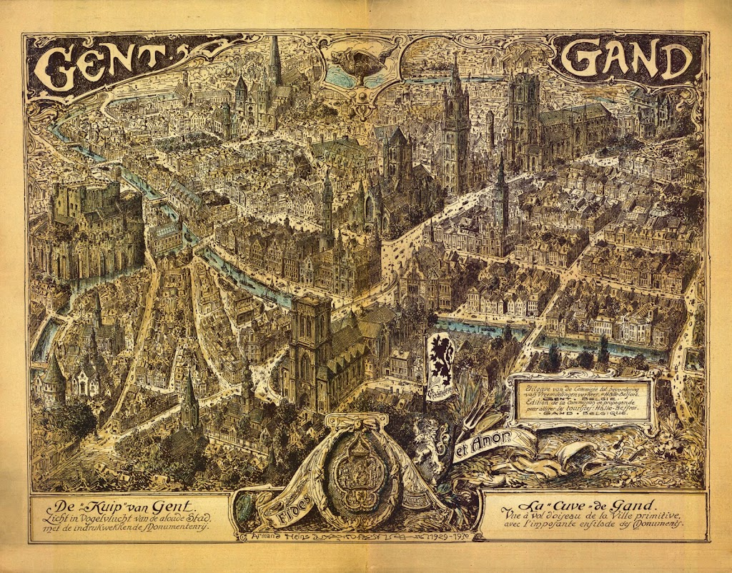 De Kuip van Gent door Armand Heins, 1929